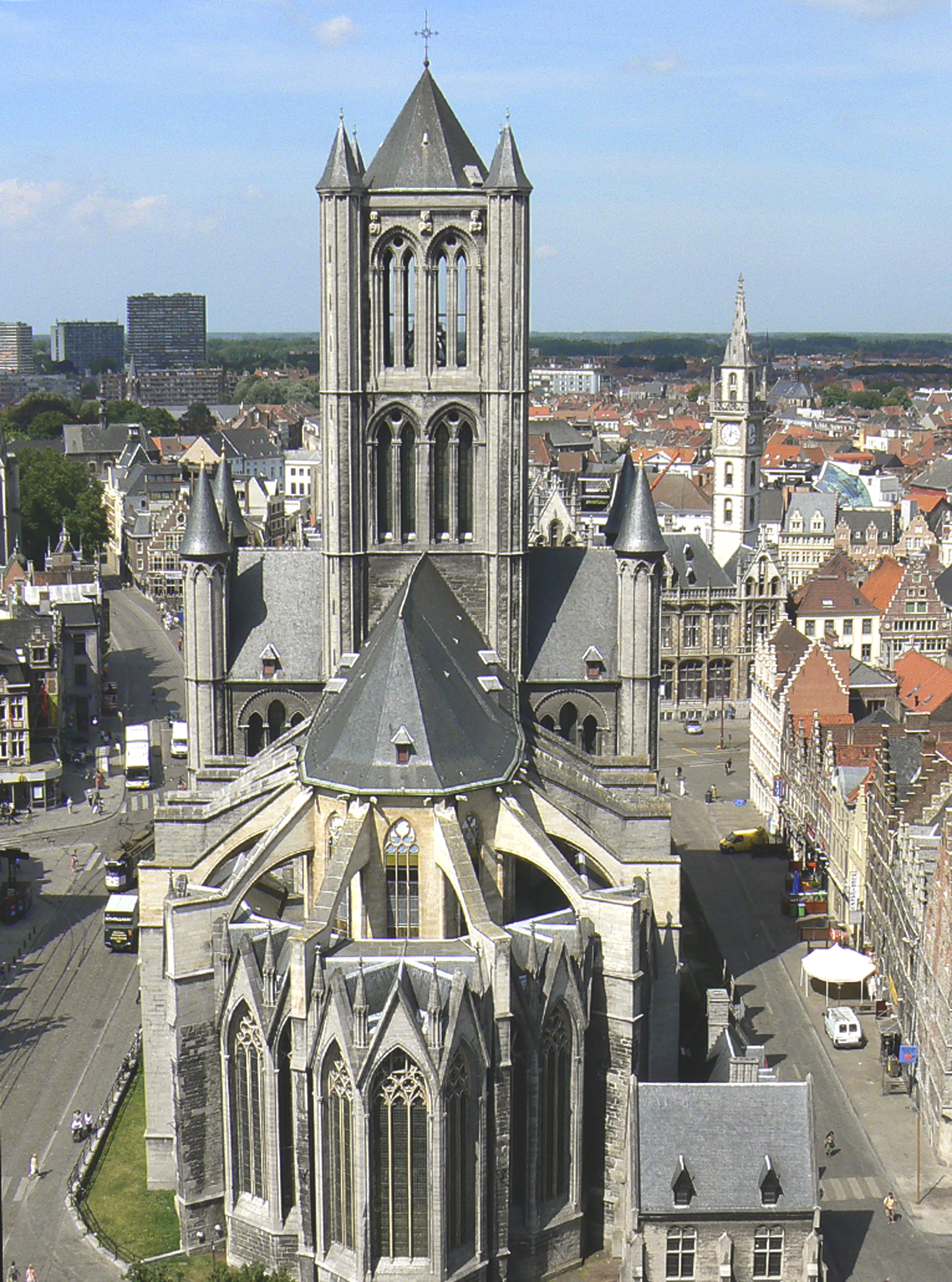 St.Nicolas church